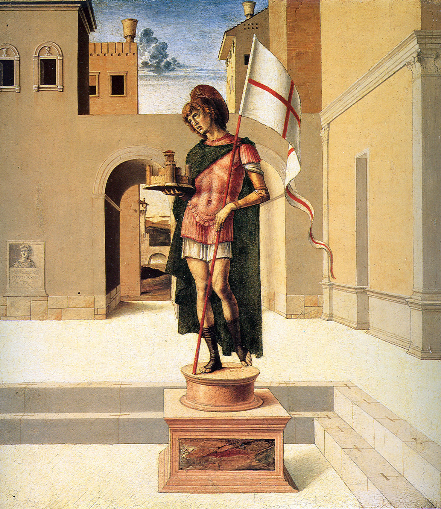 Giovanni Bellini, Pesaro Altarpiece (predella) 1471-74 Oil on wood, 40 x 36 cm Musei Civici, Pesaro.